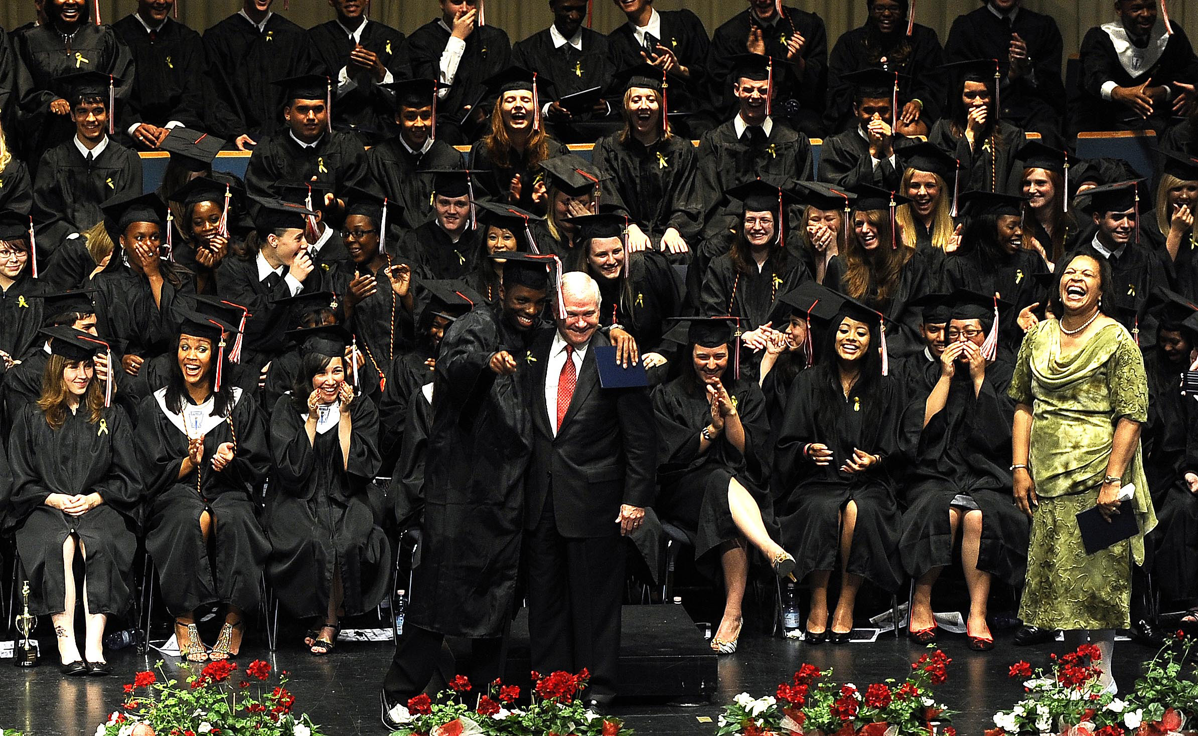 Graduates look on as Secretary of Defense Robert M. Gates receives a hug from a fellow classmate during the Kaiserslautern High School's commencement in the "Fruchthalle" in Kaiserslautern, Germany, on June 11, 2010.